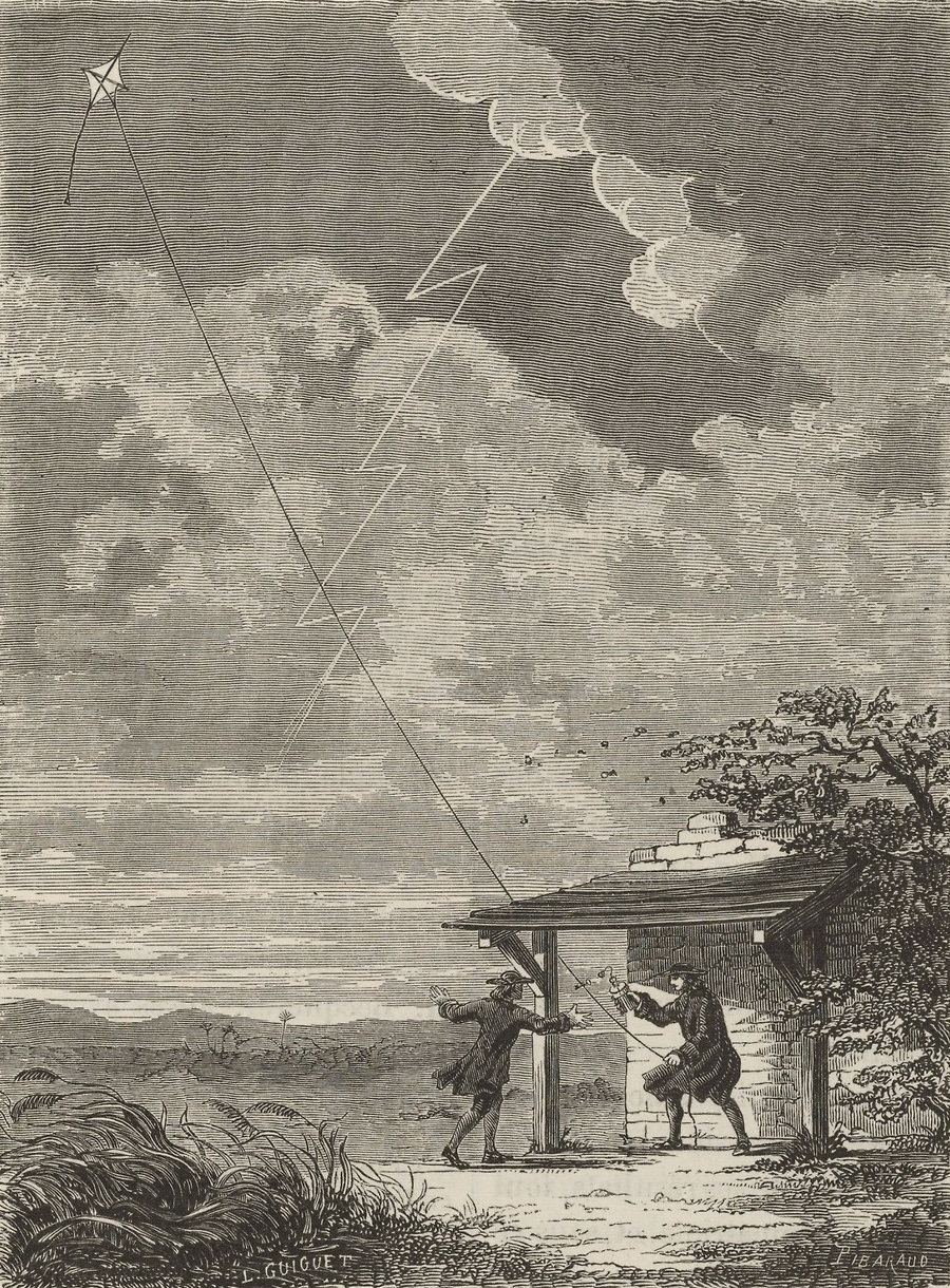 Figure 272, an illustration labeled "Experience du cerf-volant electrique faite a Philadelphie, par Franklin, au mois de september 1752" from Les merveilles de la science, ou Description populaire des inventions modernes, 1867, by Louis Figuier, fig. 333. Typ 815.67.3922, Houghton Library, Harvard University